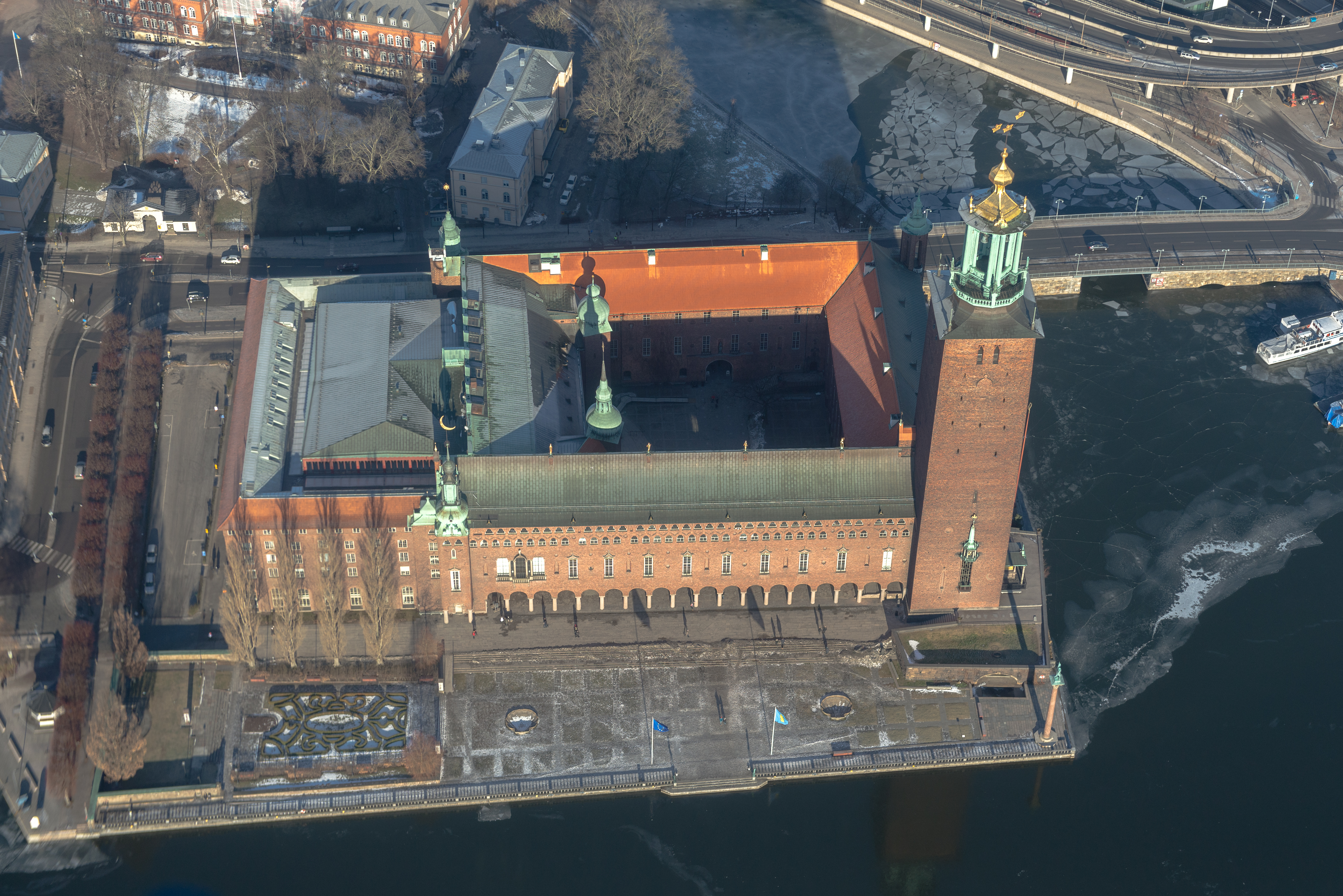 Stockholm stadshus (city hall).